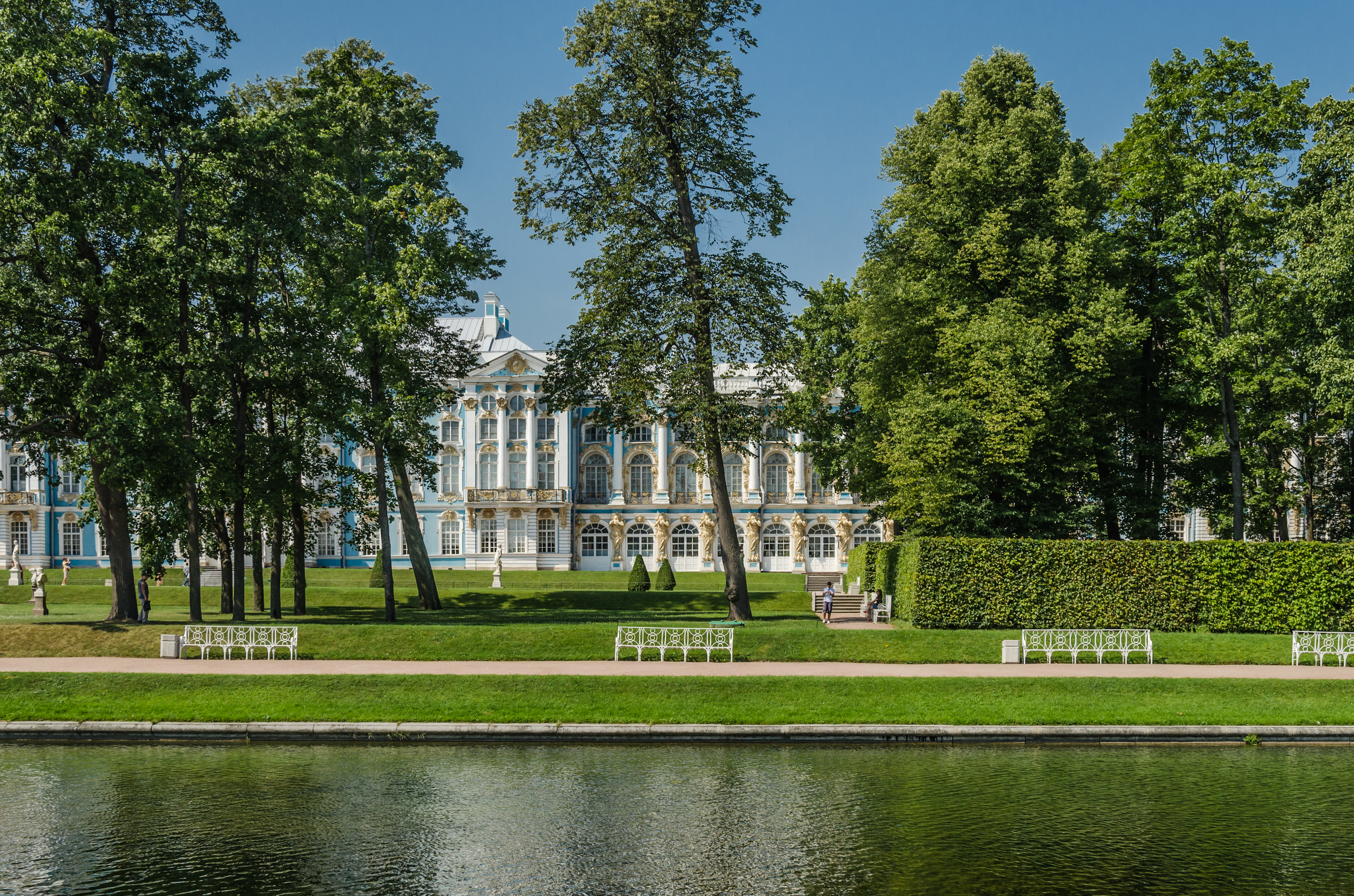 Catherine Park in Tsarskoe Selo, Saint Petersburg